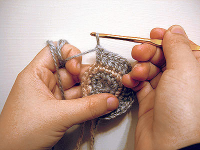 Crochet in round shape